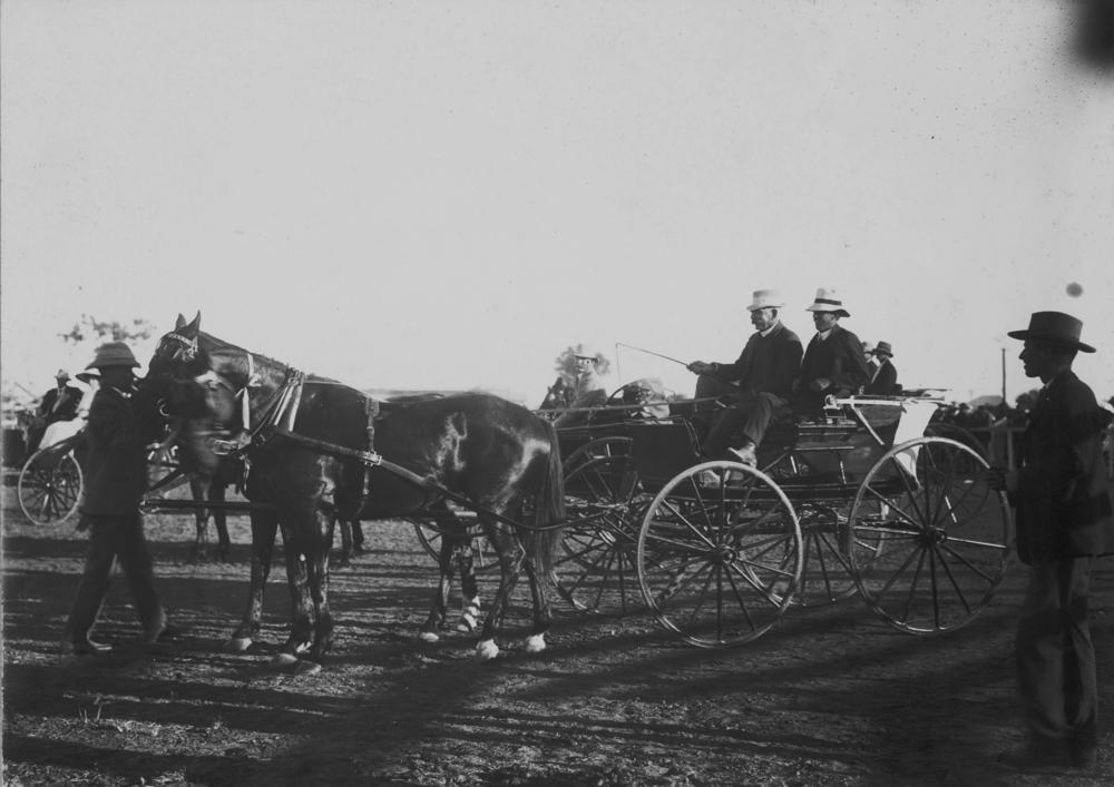 Buggy pair competitors at the Longreach Show, ca. 1907 James Inglis and C S Affleck from Wellshot, Ilfracombe competing at the Longreach Show. (Description supplied with photograph.).